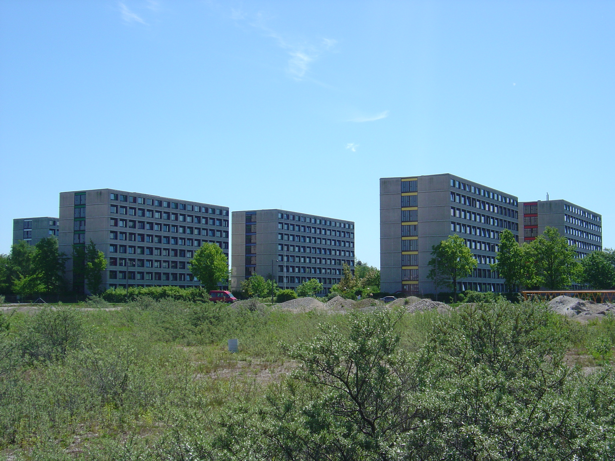 Grønjordskollegiet - the 5 main student buildings on Amager, Copenhagen. Seen from north(west) side, next to DR Byen.